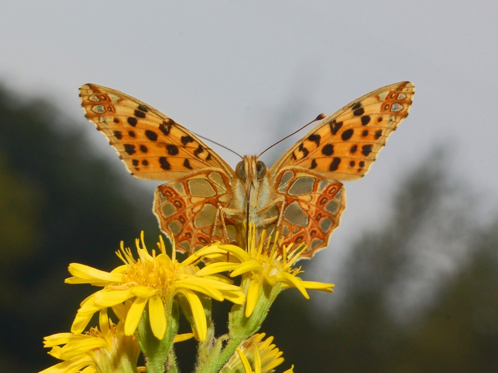 Issoria lathonia